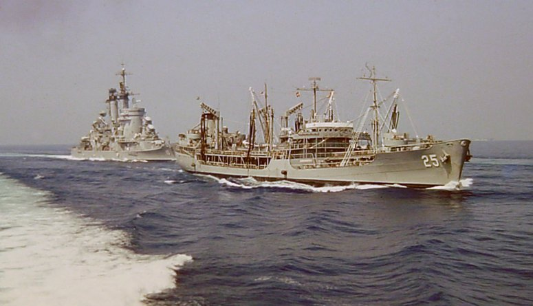 The U.S. Navy fleet oiler USS Sabine (AO-25) and the guided missile cruiser USS Albany (CG-10) coming alongside for replenishment in the Caribbean Sea in March 1967. The photo was taken from the destroyer USS Meredith (DD-890).